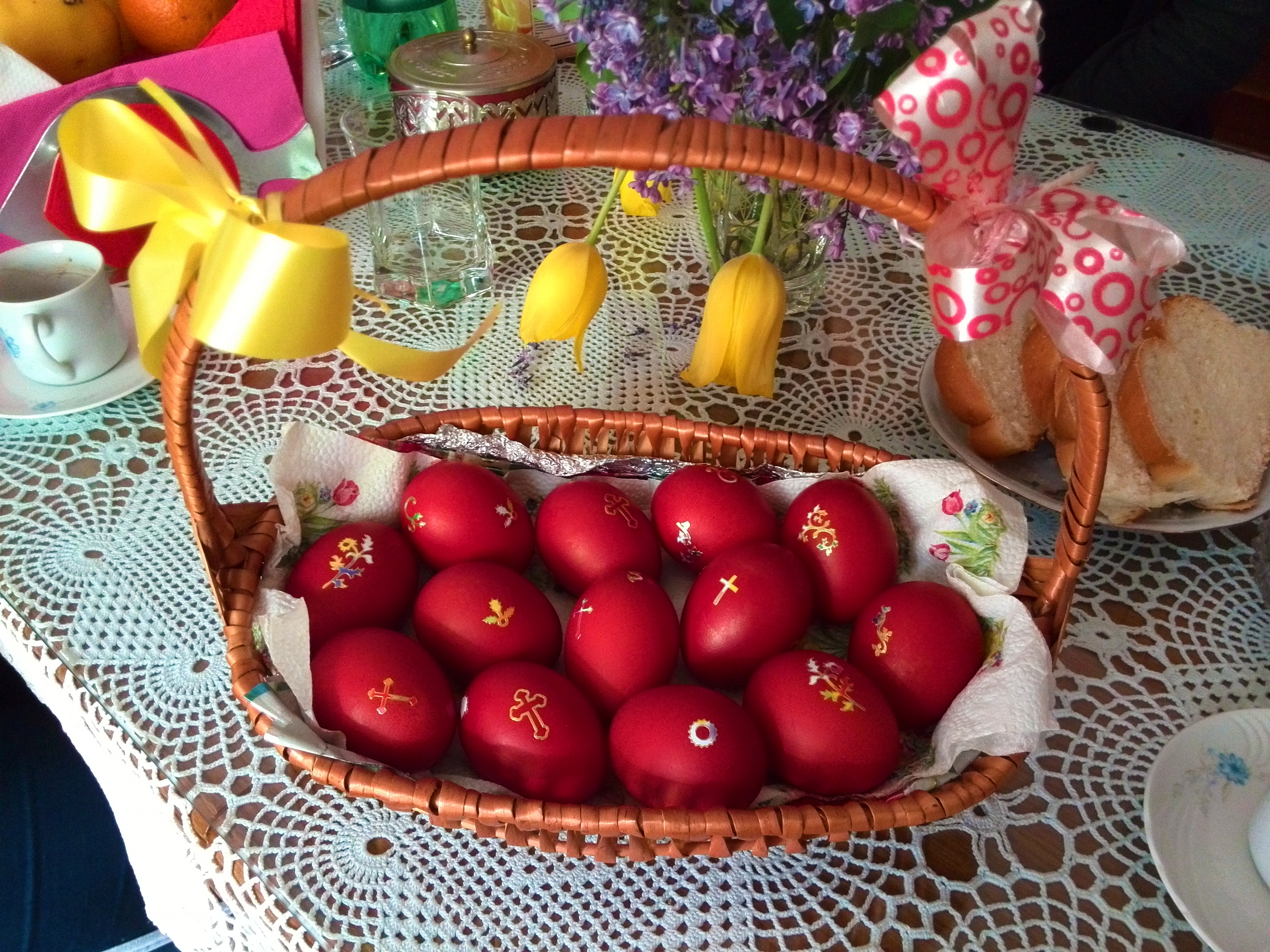 Easter eggs in Bitola, Macedonia.Српски (ћирилица): Васкршња јаја у Битољу, Македонија.